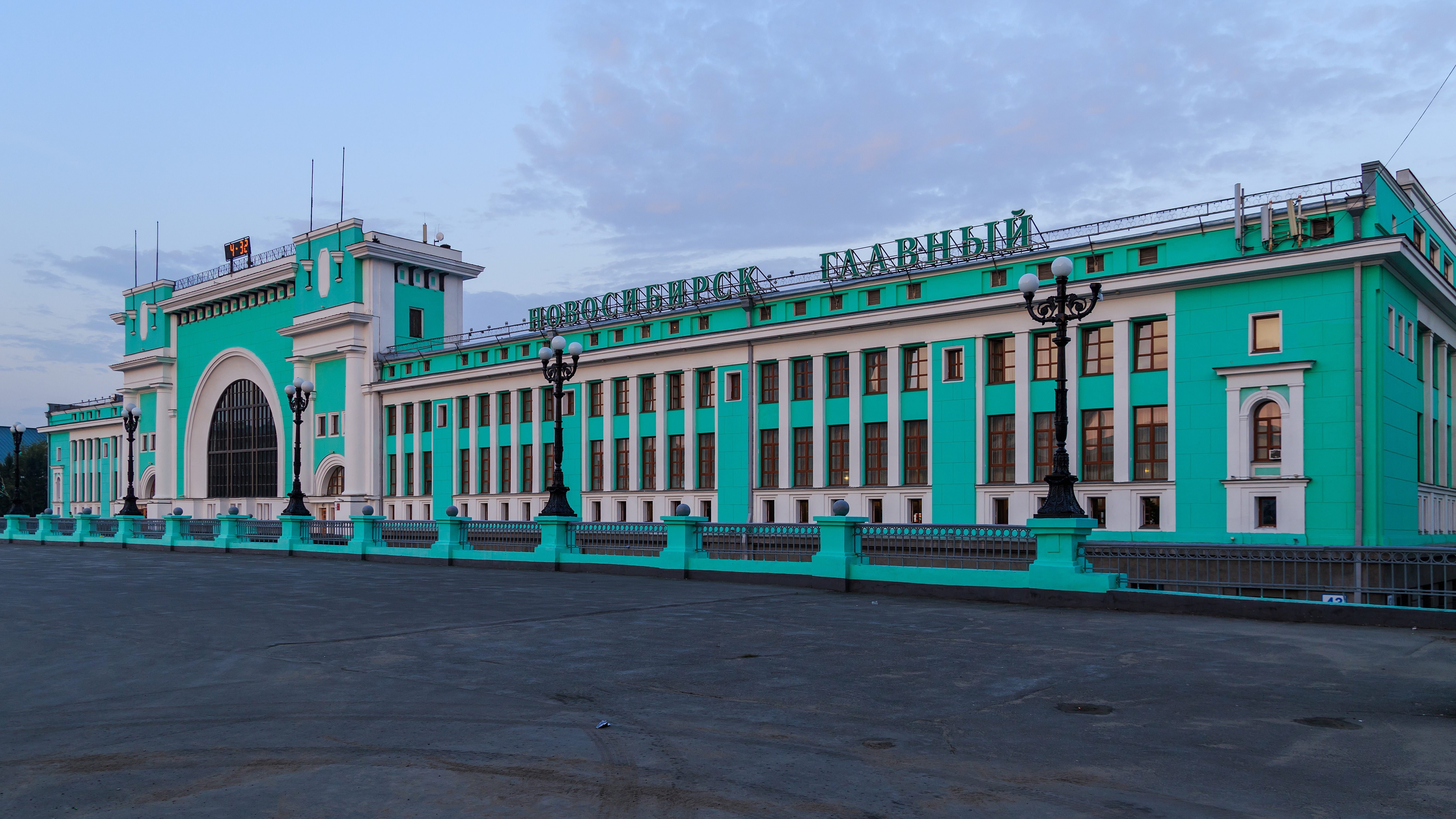 Novosibirsk Glavny railway station in Novosibirsk, Russia